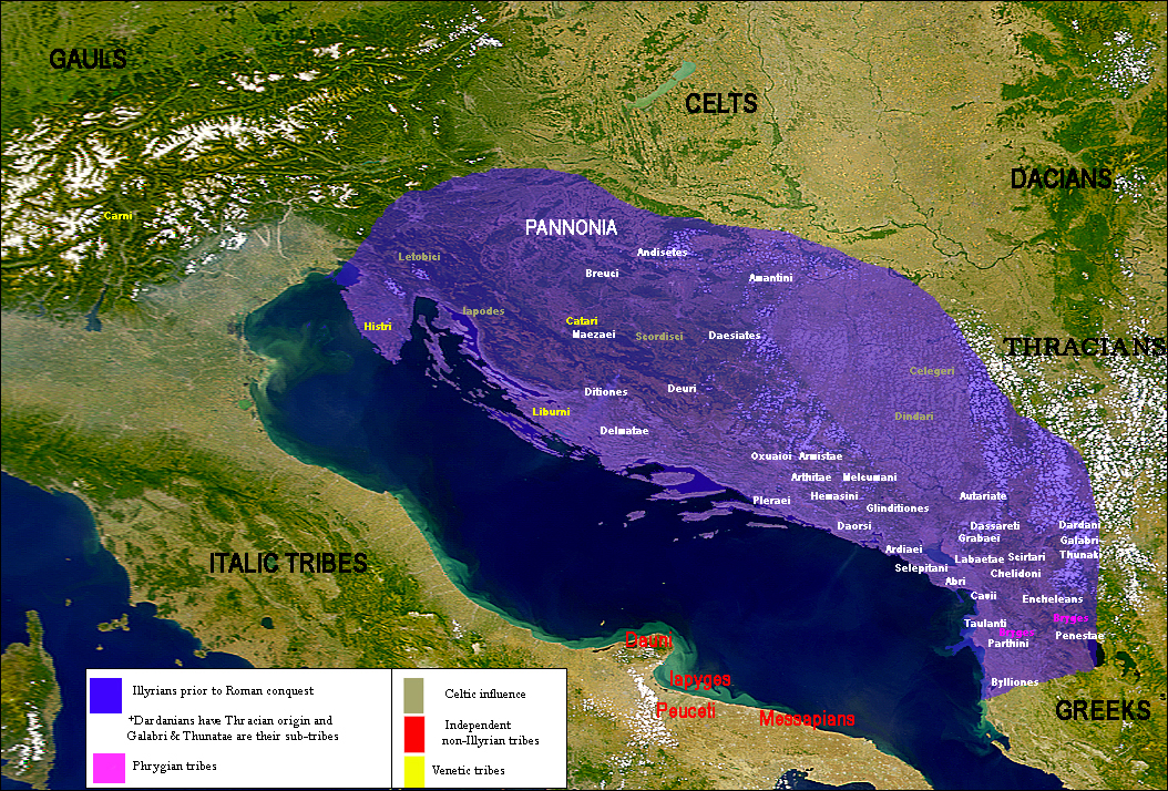 Map of the Illyrian tribes